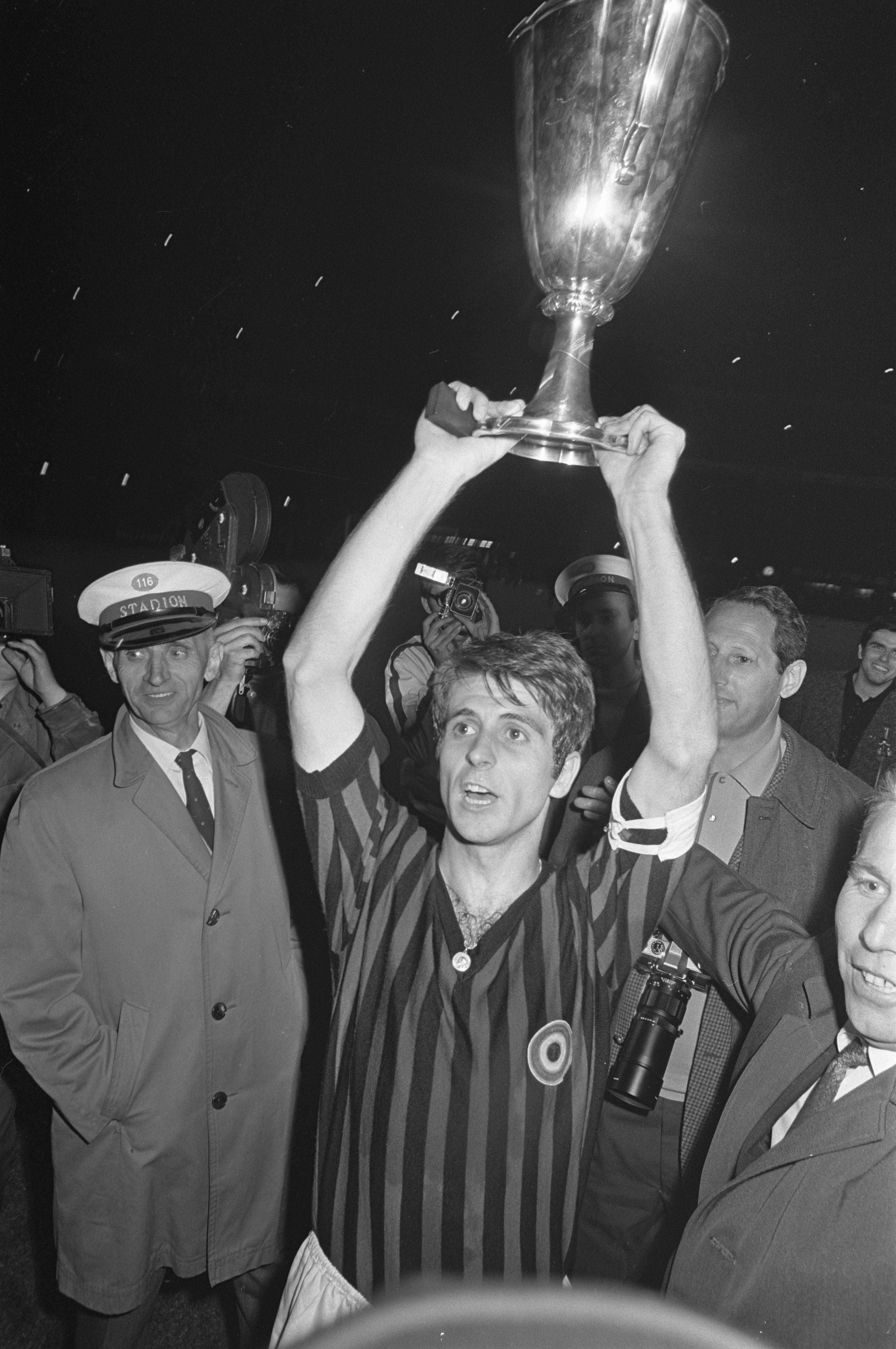 Gianni Rivera, captain of AC Milan, shows the UEFA Cup Winners' Cup won against Hamburger SV in the 1968 final in Rotterdam, Netherlands.